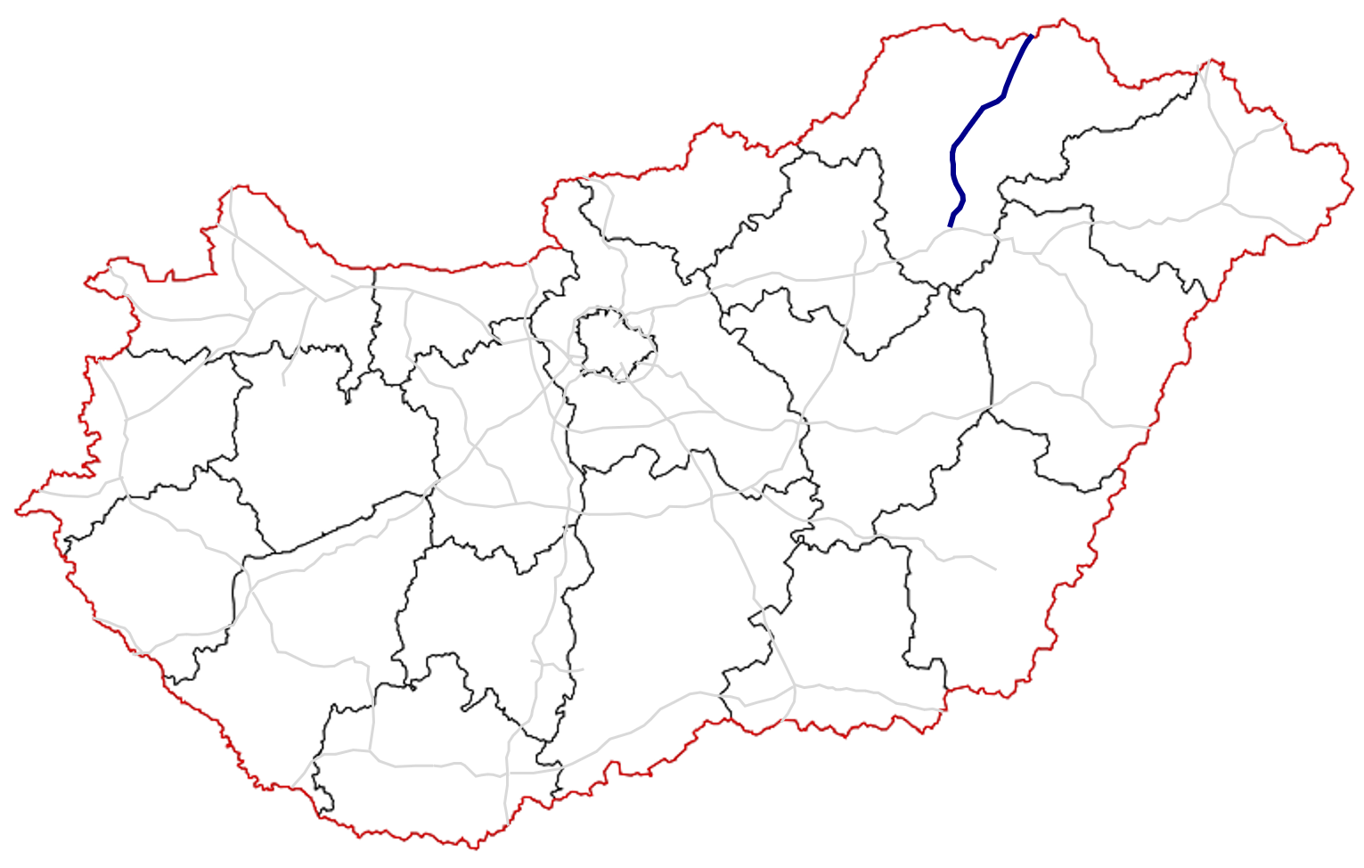 Traject the M30 Motorway, Hungary (Blue: in use, Light blue: under construction, Green: planned)